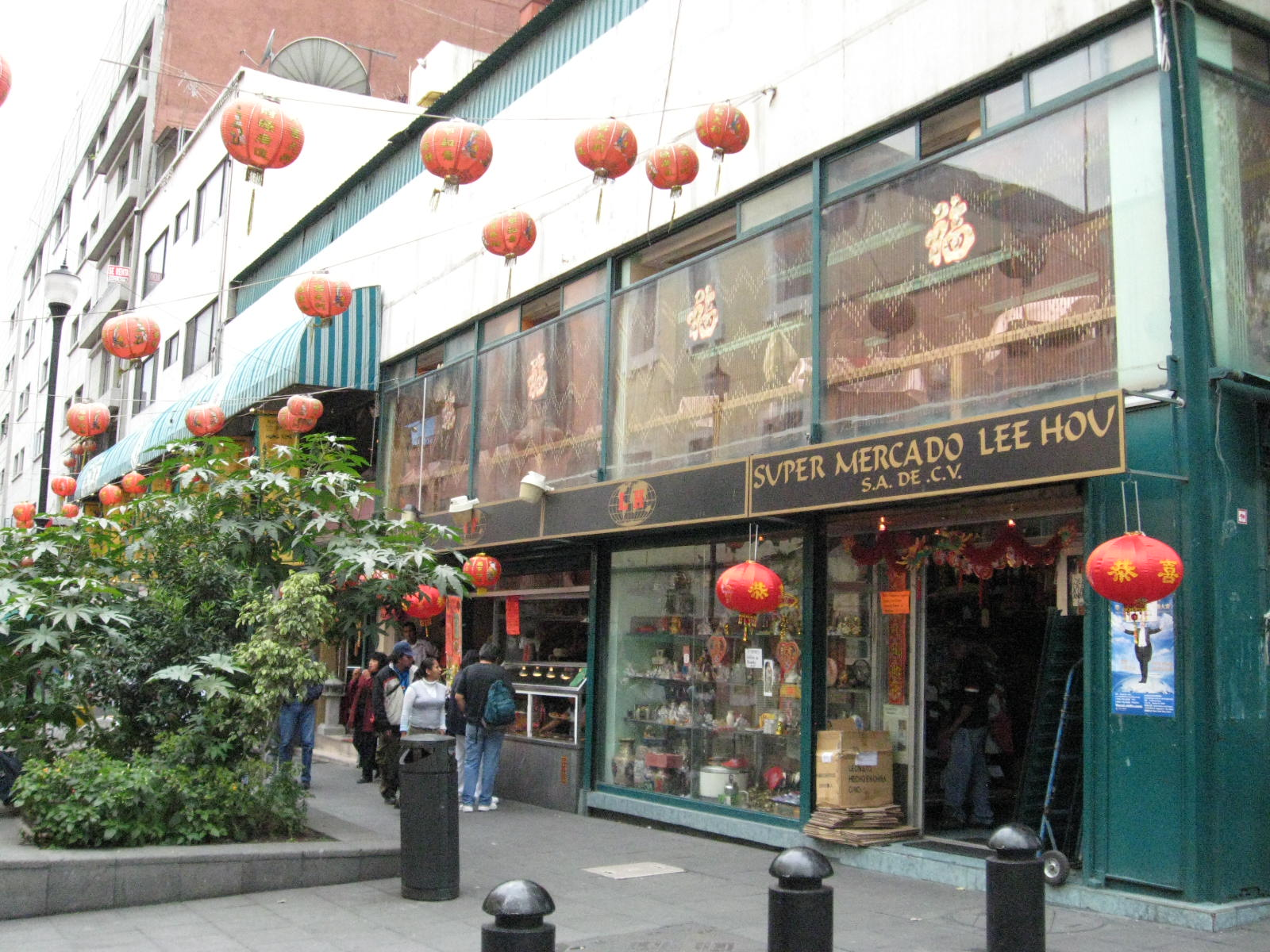 An Asian foods supermarket in the Barrio Chino (Chinatown) in Mexico City